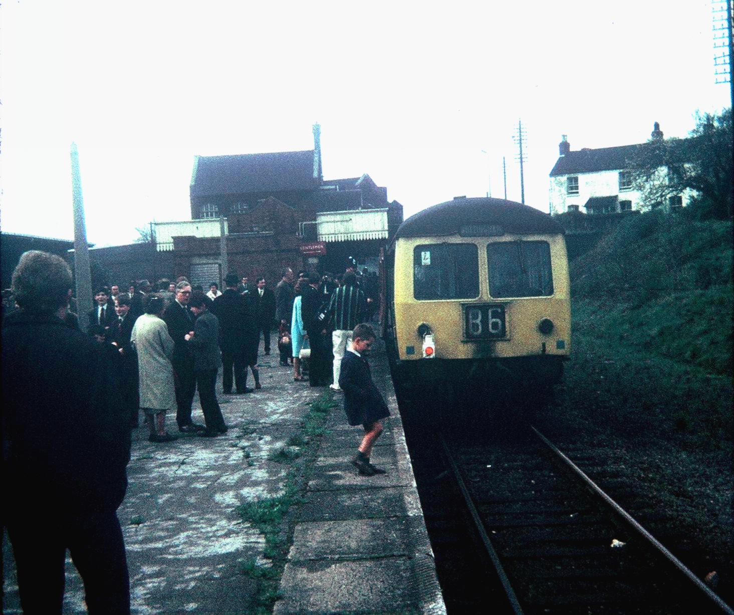 .This photo shows the final train at Rugby (Central) Station on Saturday 3rd May 1969, having arrived from Nottingham (Arkwright Street) Station via Loughborough and Leicester. This stretch of line was part of the former Great Central Railway, and the section between Leicester North and Loughborough is now used as a preserved railway. This image was taken from the Geograph project collection. See this photograph's page on the Geograph website for the photographer's contact details. The copyright on this image is owned by David Hillas and is licensed for reuse under the Creative Commons Attribution-ShareAlike 2.0 license. Attribution: David Hillas